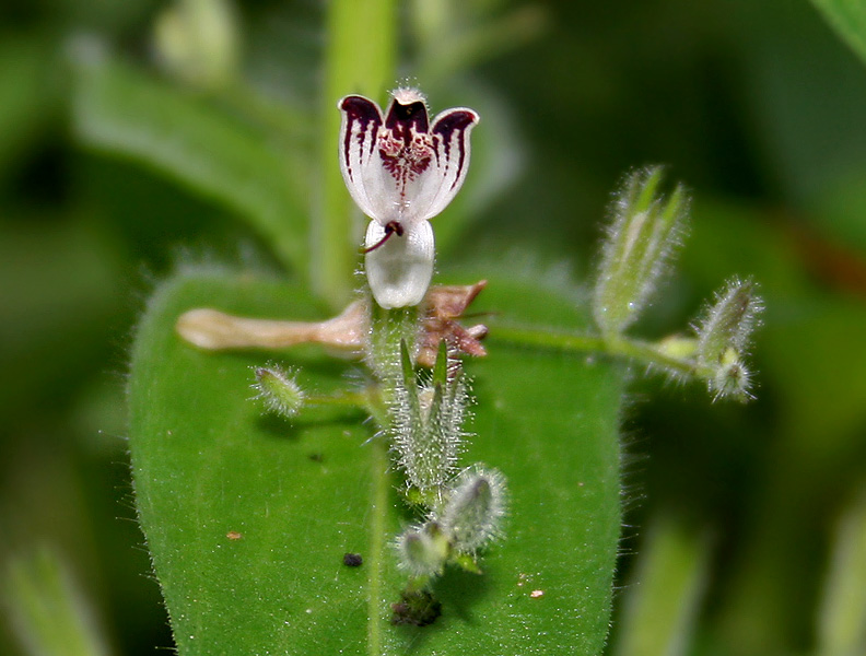 Andrographis echioides (Synonyms: Justicia echioides, Indoneesiella echioides)- False Waterwillow • Gujarati: Kalukariyatun • Malayalam: Pitumba • Marathi: Ranchimani • Oriya: lavalata • Tamil: Gopuram tangi- in Hyderabad, India.